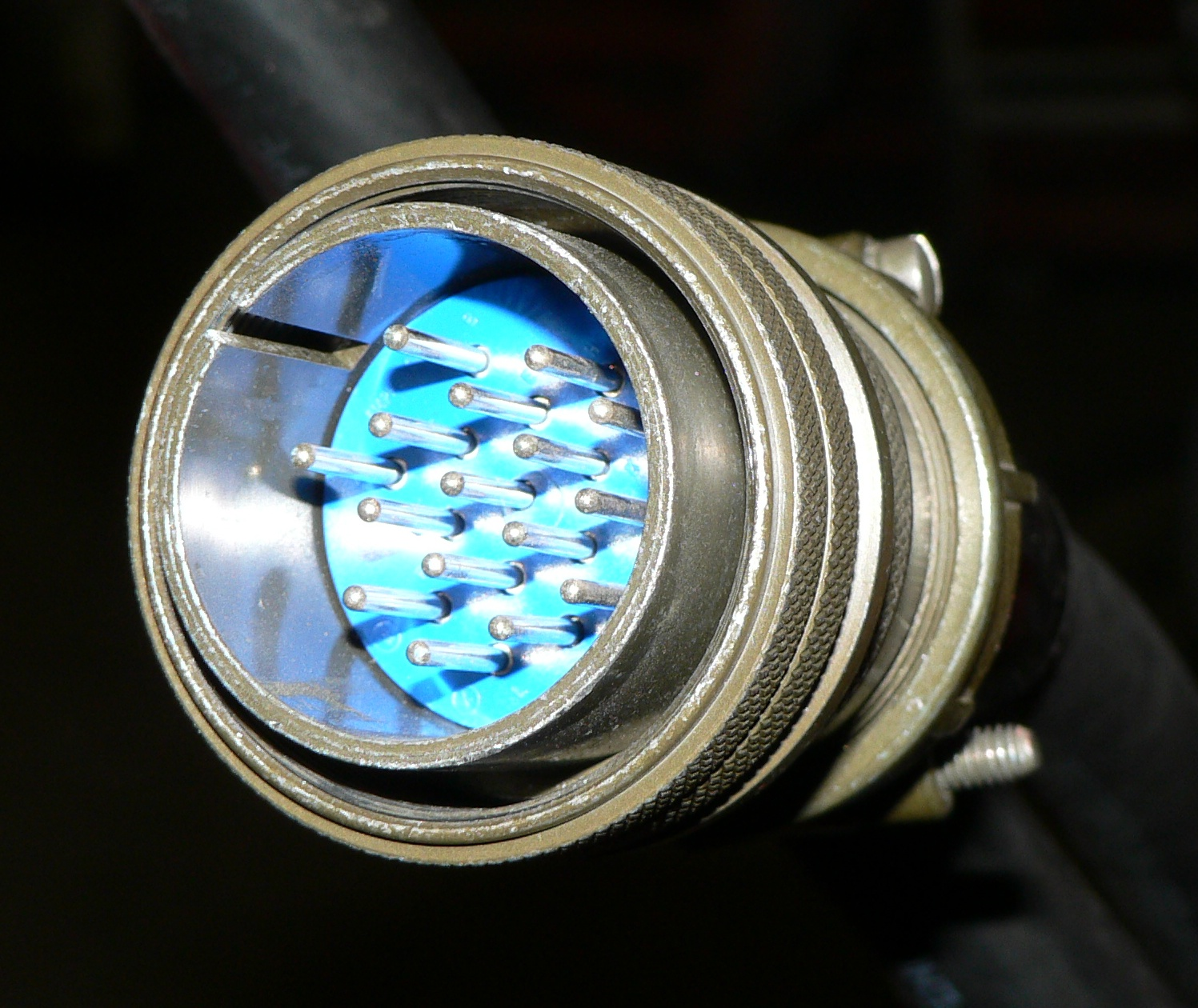 Picture taken by me, User:W0lfie.